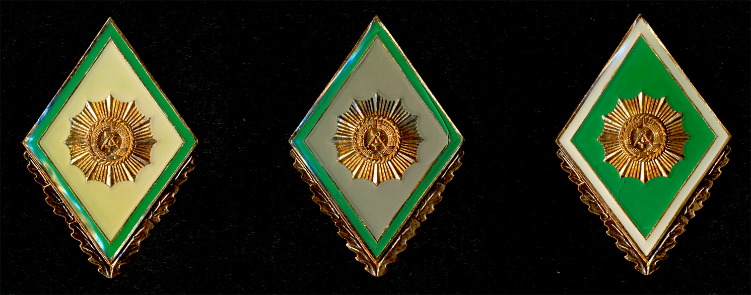 Graduates badges l.t.r.: 1. High school oft the Volkspolizei "Karl Liebknecht" Berlin 2. University or High school 3. Ministry of Interior’s Officers high school der (Volkspolizei-Bereitschaften) "Artur Becker" Dresden)